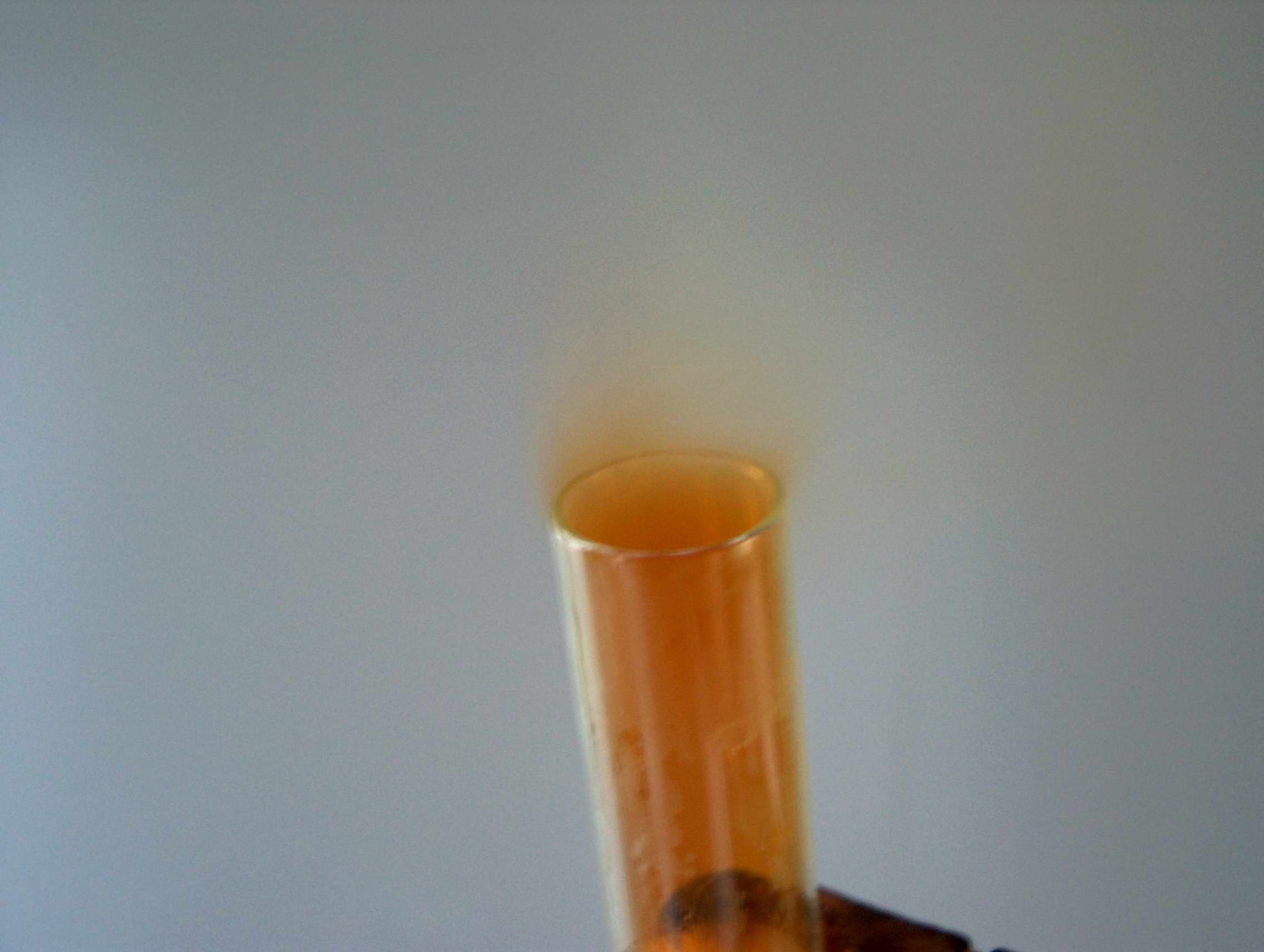 Nitrogen dioxide obtained in a test-tube